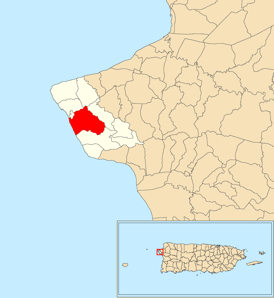 Pueblo, Rincón, Puerto Rico locator map